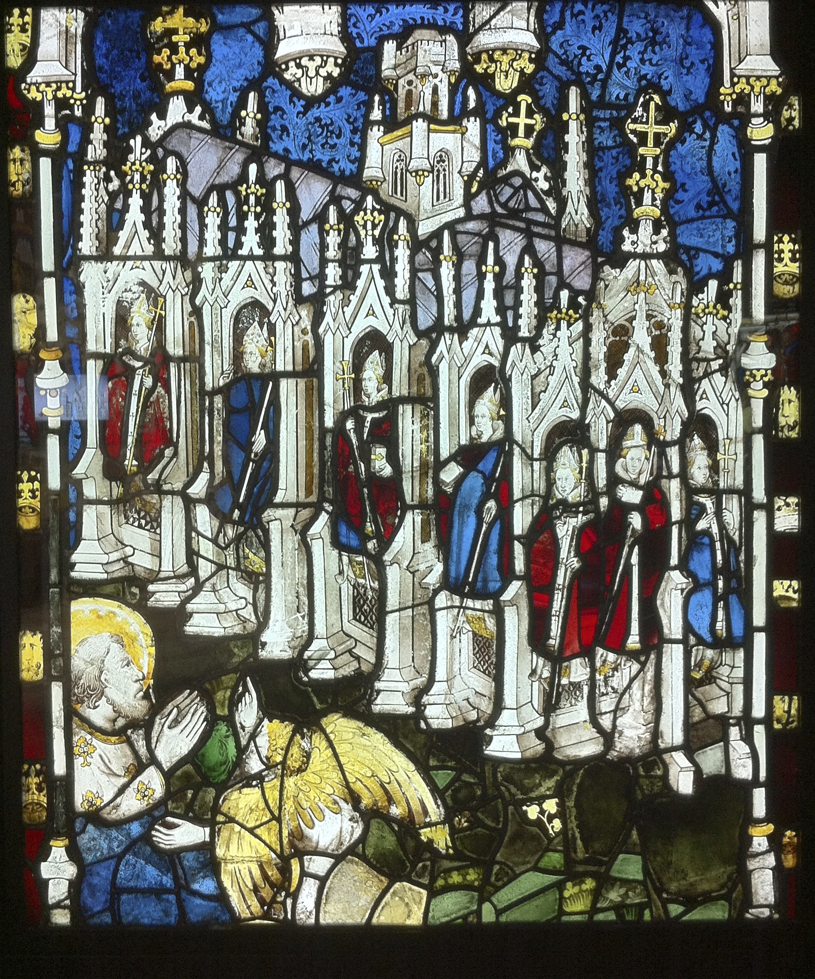 The Seven Churches of Asia in the East Window at York Minster. Medieval glass designed by John Thornton. Saint John (bottom left) is told by an angel to write to the seven churches of Asia about his vision. John Thornton's glazing design is unique as it combines all seven churches into one image. Each is represented by an archbishop standing in a shrine-like building. Photograph taken whilst the East Window was under repair, and restored sections were being displayed to visitors.